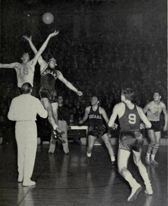 Photograph of Johnny Gee (No. 16) playing basketball for the University of Michigan. The photograph was published in the 1937 Michiganensian with the caption: "Controlling The Tip - Gee way above Hosler to start rout of Indiana, 55 to 37." This work is in the public domain because it was published in the United States between 1923 and 1963 and although there may or may not have been a copyright notice, the copyright was not renewed. Unless its author has been dead for the required period, it is copyrighted in the countries or areas that do not apply the rule of the shorter term for US works, such as Canada (50 pma), Mainland China (50 pma, not Hong Kong or Macao), Germany (70 pma), Mexico (100 pma), Switzerland (70 pma), and other countries with individual treaties. See Commons:Hirtle chart for further explanation. This work is in the public domain because it was published in the United States between 1923 and 1977 and without a copyright notice. Unless its author has been dead for several years, it is copyrighted in jurisdictions that do not apply the rule of the shorter term for US works, such as Canada (50 p.m.a.), Mainland China (50 p.m.a., not Hong Kong or Macao), Germany (70 p.m.a.), Mexico (100 p.m.a.), Switzerland (70 p.m.a.), and other countries with individual treaties. See this page for further explanation.